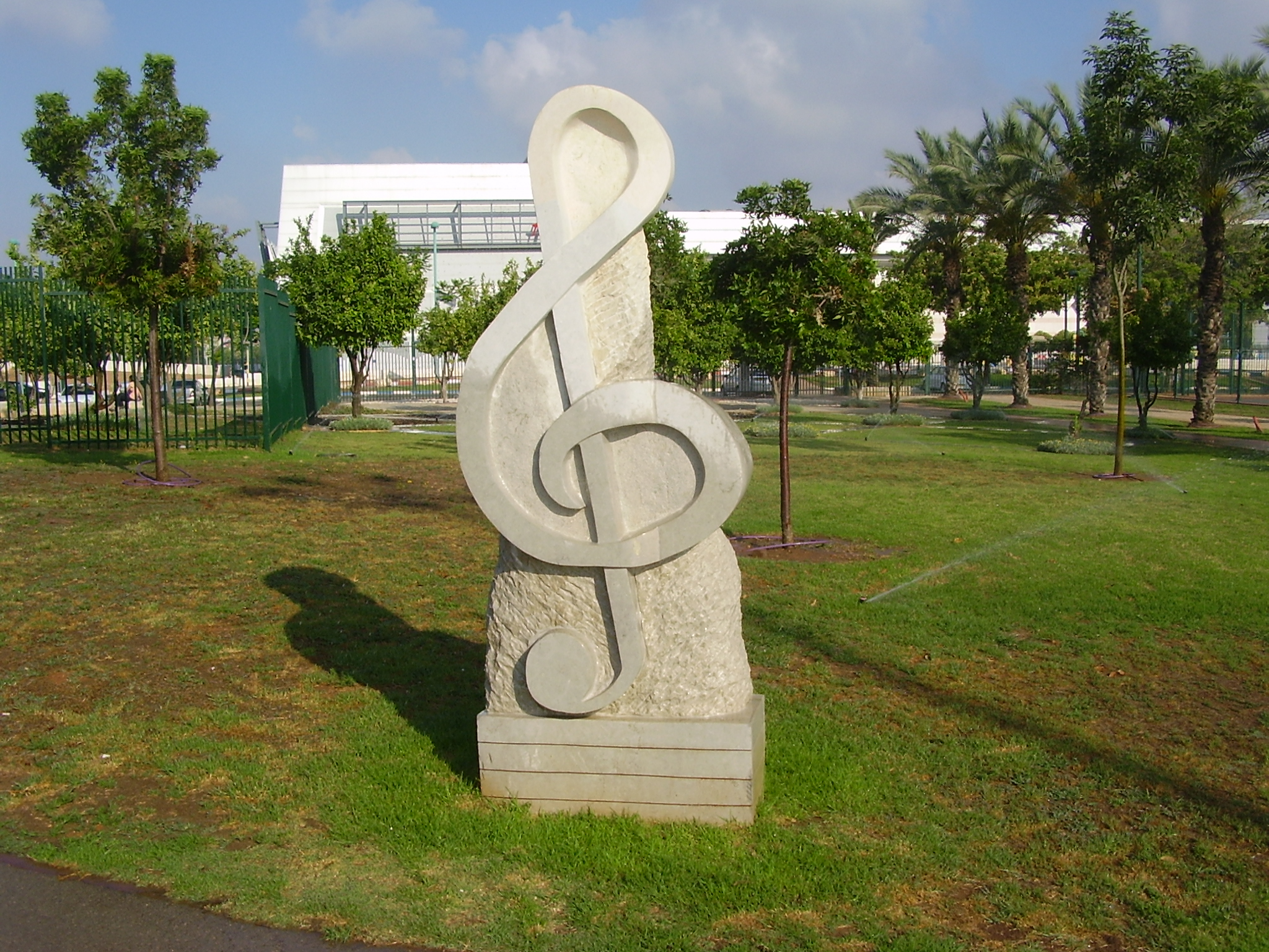 G Key in Petah Tikva, Israel